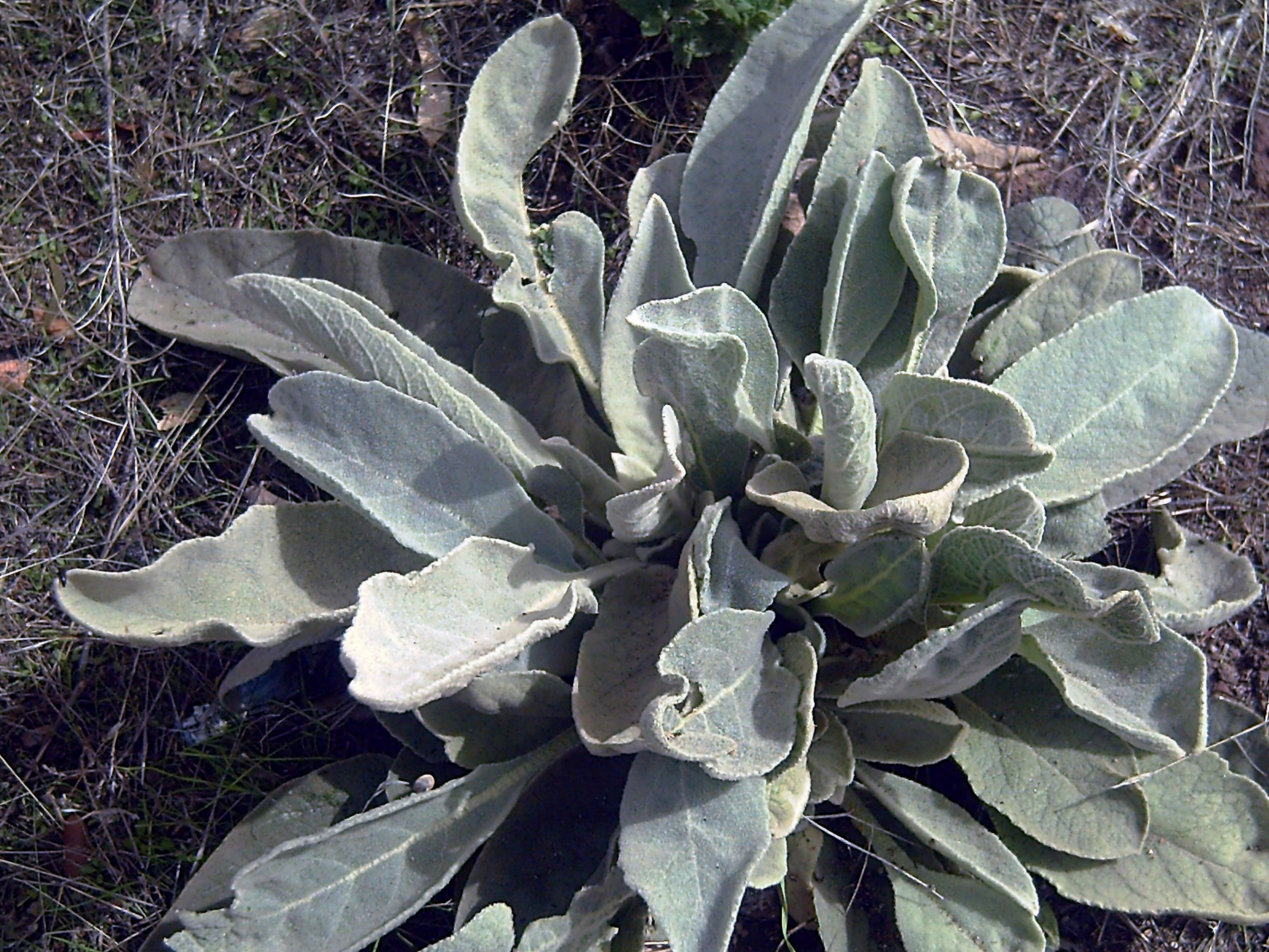 Verbascum rotundifolium basal leaves Dehesa Boyal de Puertollano, Spain